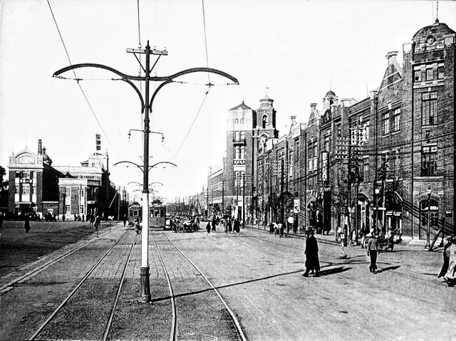 Trams in front of Shenyang Railway Station, Shenyang, China in 1930s.